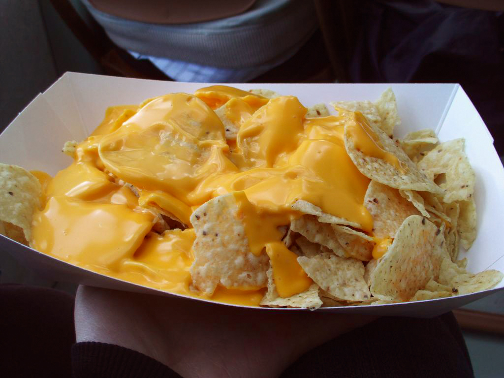 Nachos as served on a Circle Line Sightseeing Cruise in New York, New York, USA.